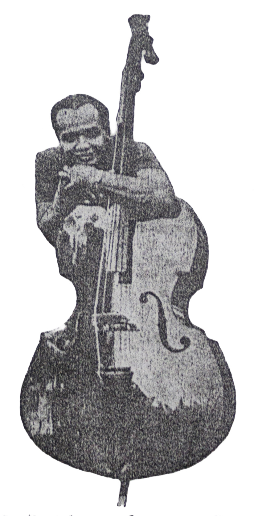 Indonesian actor Kartolo with his viola